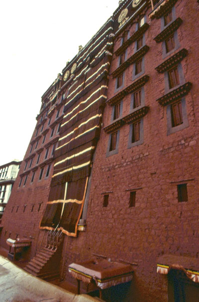 Potala. Red Palace. Lhasa